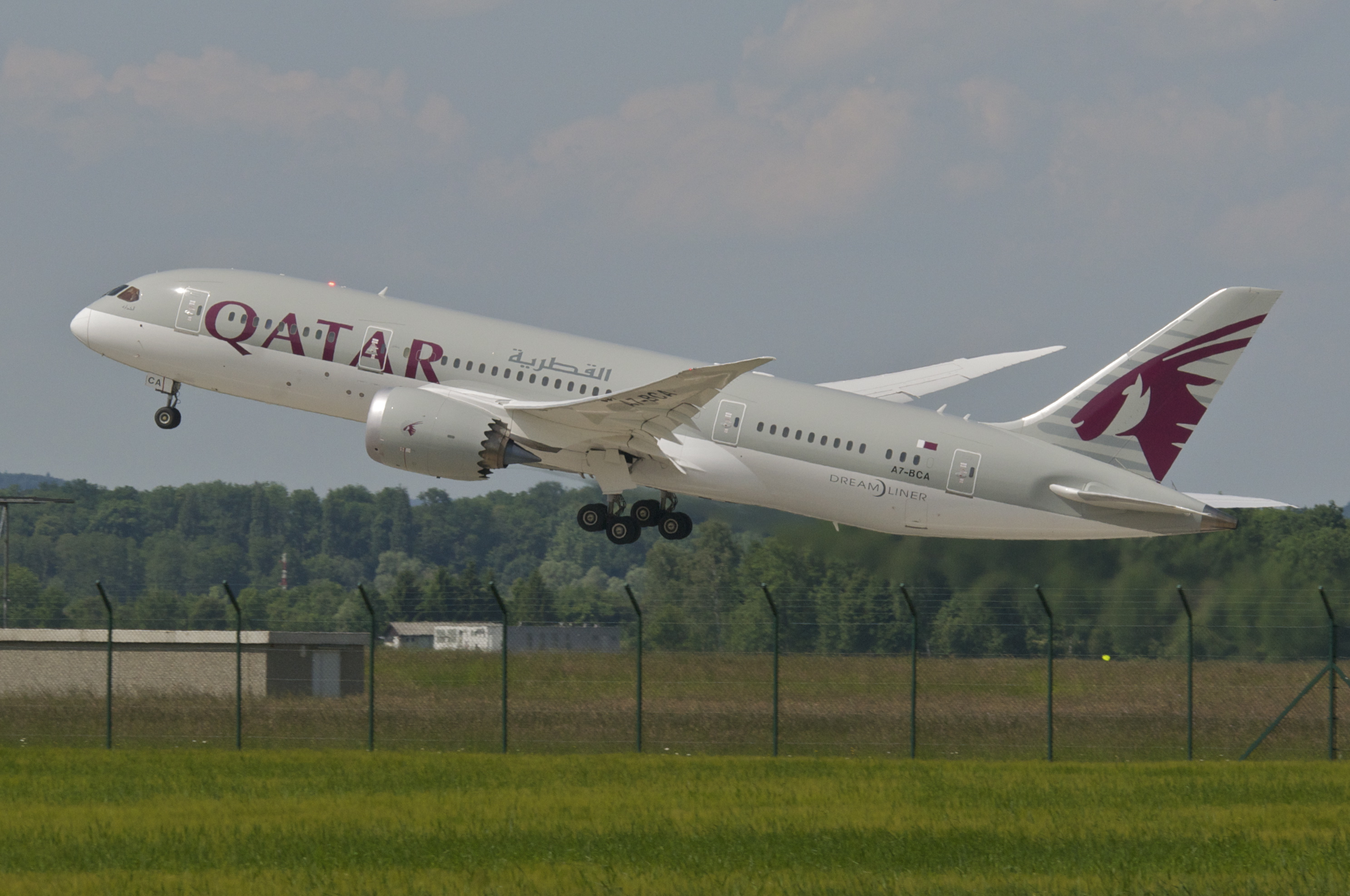 Departing as QR 064 back to Doha...